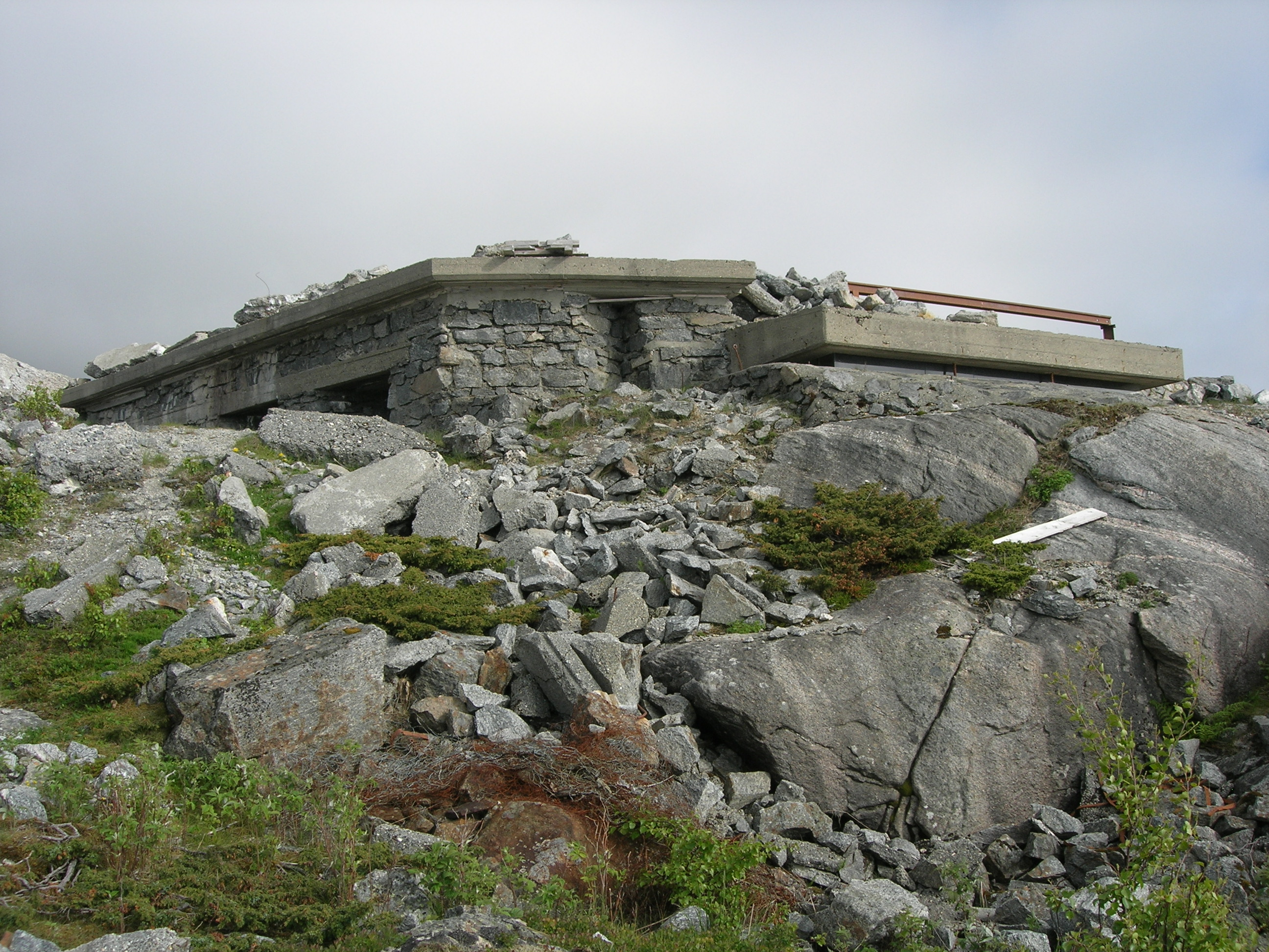 Kommandobunkeren ved Grønsvik Kystfort